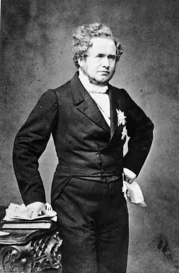 Danish Council President (Prime Minister), MP Carl Christian Hall (1812-1888)